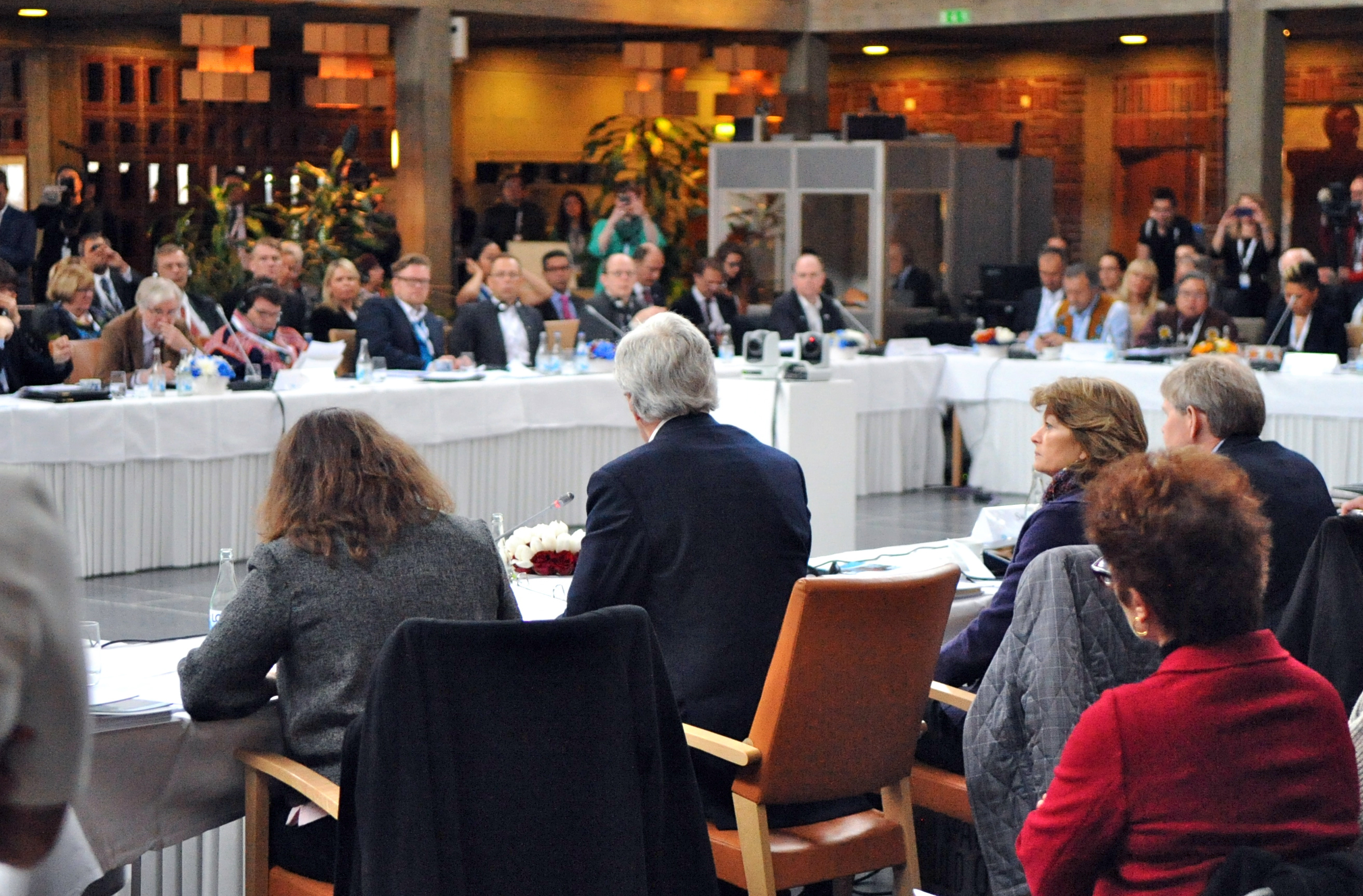 U.S. Secretary of State John Kerry addresses the Kiruna Ministerial Meeting of the 8th annual Arctic Council meeting at the City Hall in Kiruna, Sweden on May 14, 2013. [State Department photo / Public Domain]